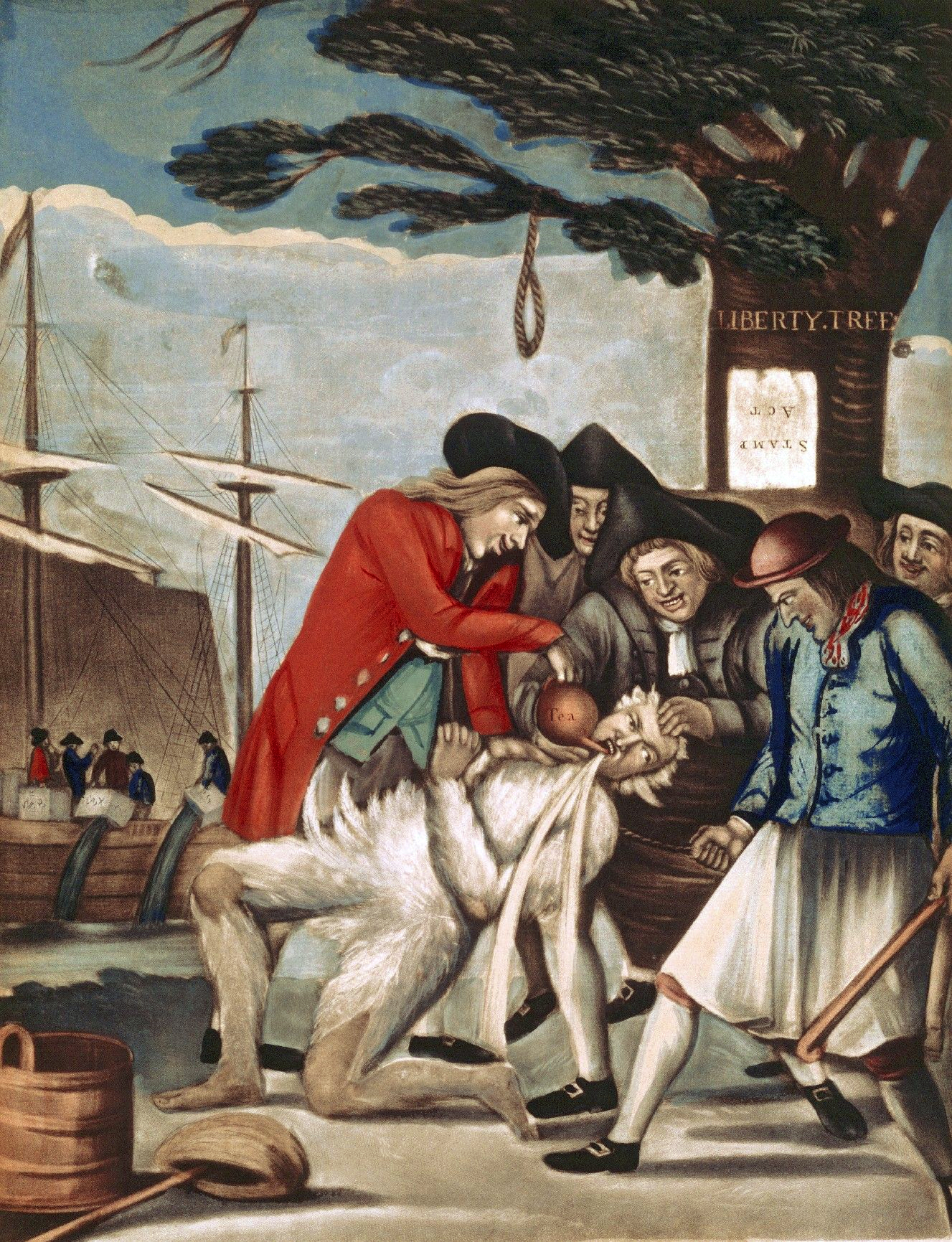 A depiction of the tarring and feathering of Commissioner of Customs John Malcolm, a Loyalist, by five Patriots on 5 January 1774 under the Liberty Tree in Boston, Massachusetts. Tea is also being poured into Malcolm's mouth. The print shows the Boston Tea Party occurring in the background, though that incident had in fact taken place four weeks earlier. See The Bostonians paying the excise-man, or tarring and feathering. History Matters: The U.S. Survey Course on the Web, American Social History Project, Center for Media and Learning (CUNY Graduate Center) and the Roy Rosenzweig Center for History and New Media (George Mason University). Retrieved on 1 May 2011.